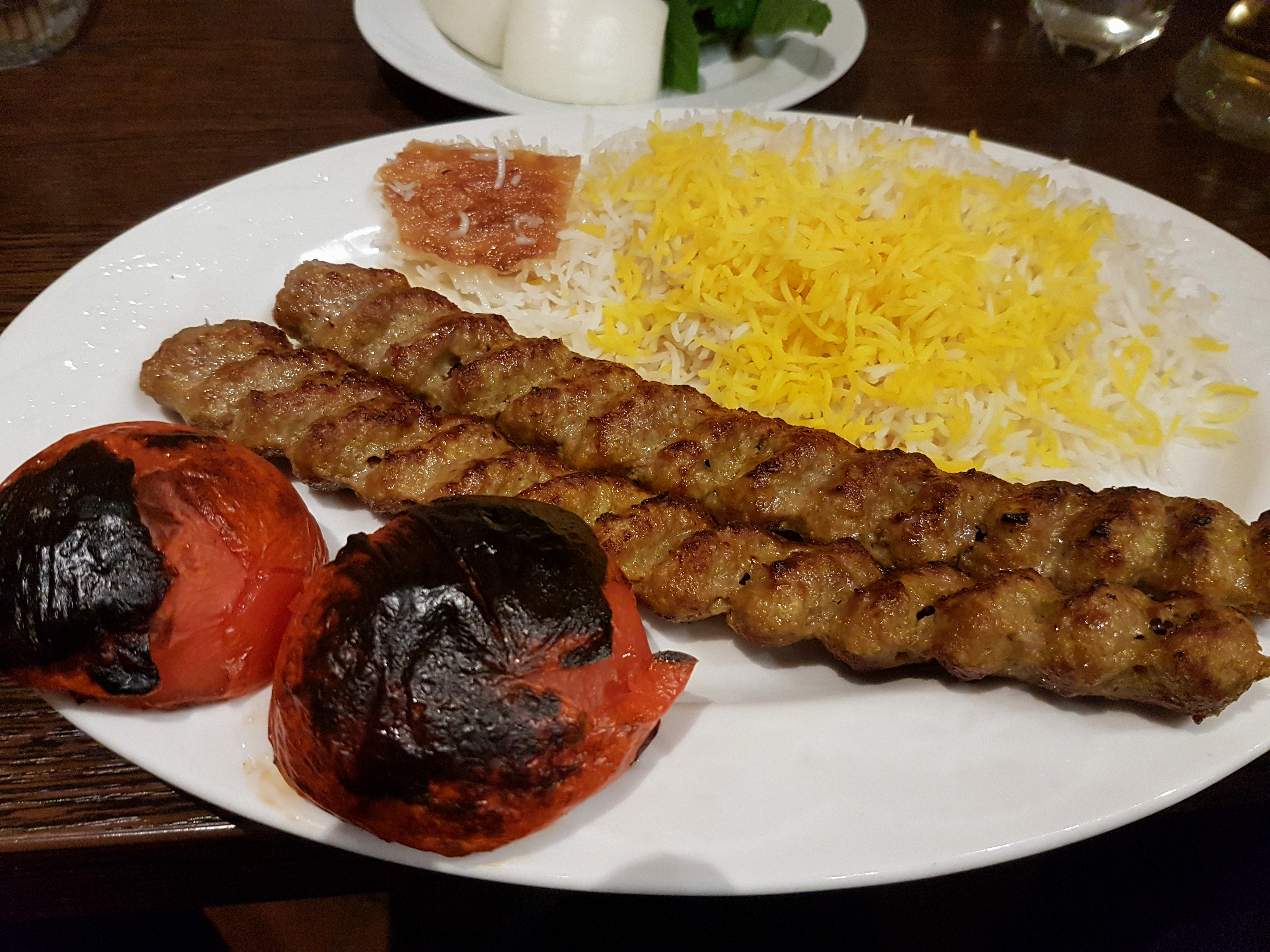 Chelo Kabab Soltani - 2 grilled minced lamb kebabs, grilled tomatoes and rice with saffron. Photographed in the Persian restaurant Kourosh in Berlin.